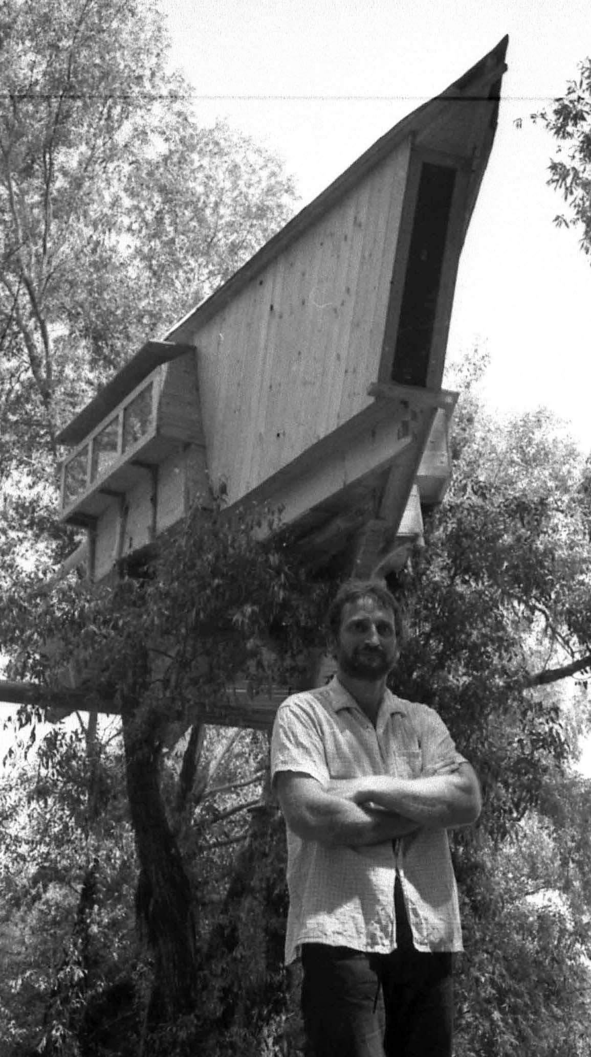 Ada Medjica